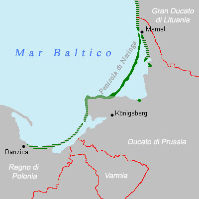 Italian translation of the original English map.